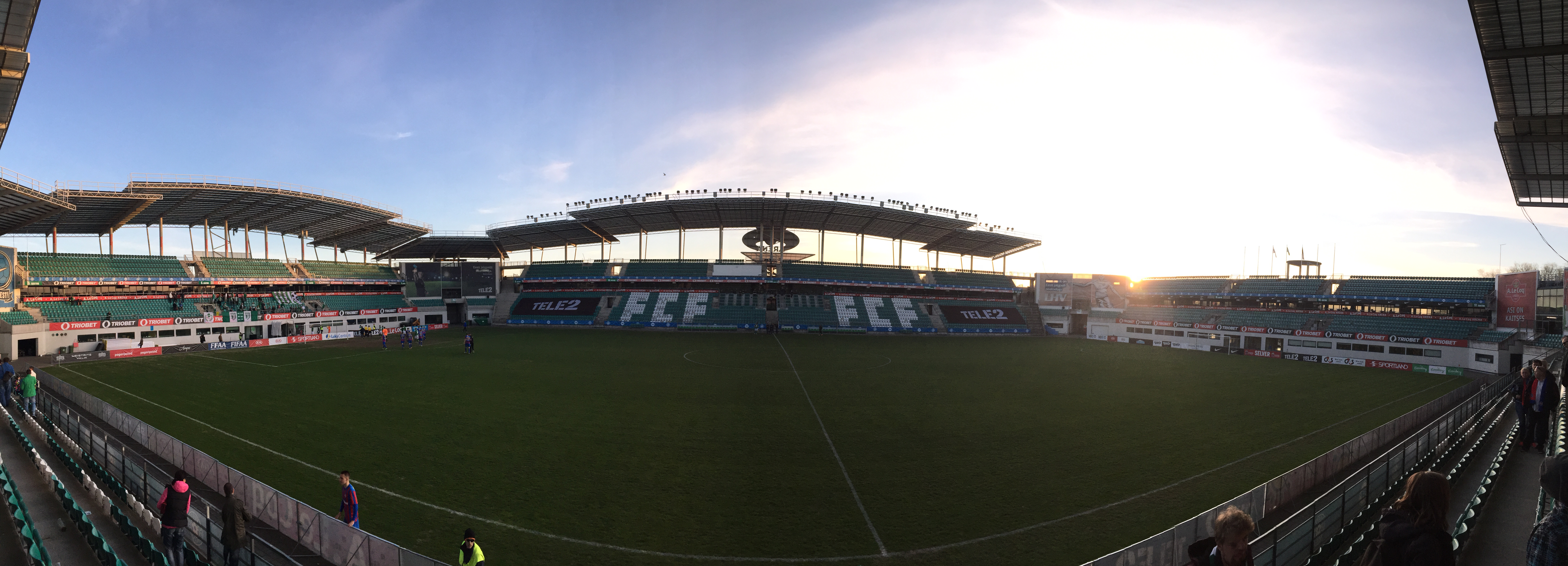 A.Le Coq Arena in Tallinn after the game FC Flora Tallinn vs. Paide Linnameeskond (06.05.2016)